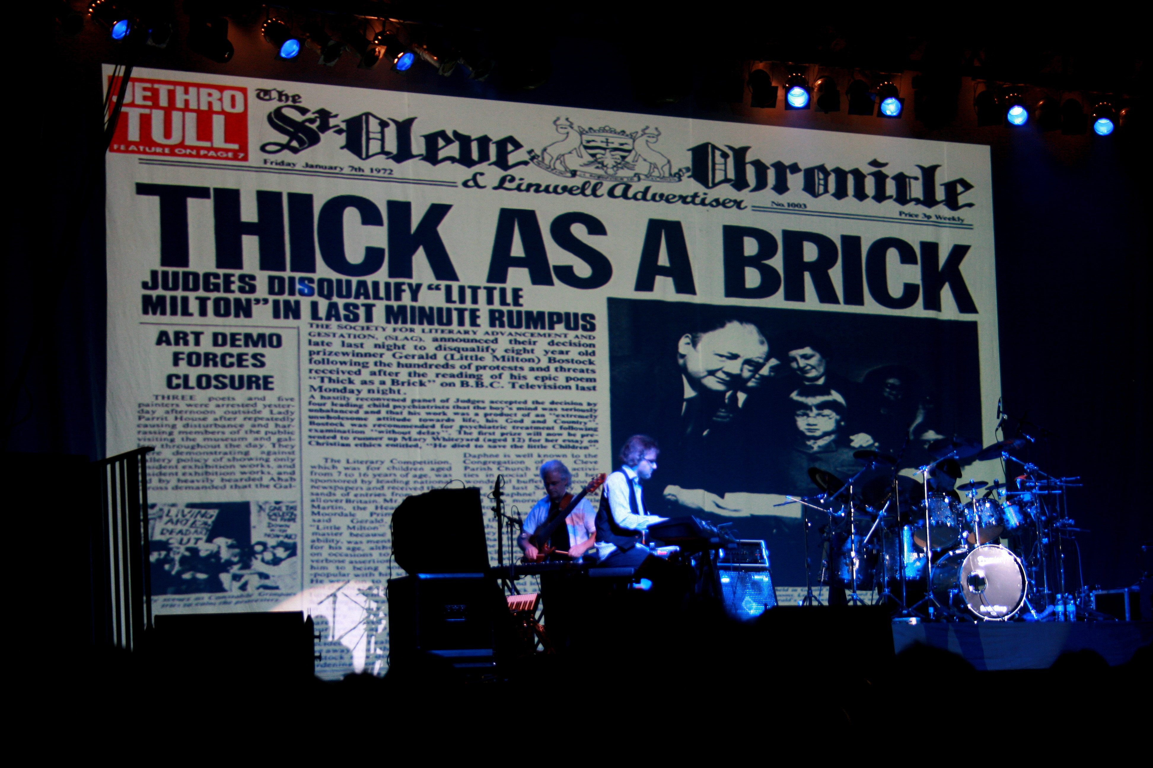 Jethro Tull concert, 14. Mar. 2009, Uni-Halle (Wuppertal)